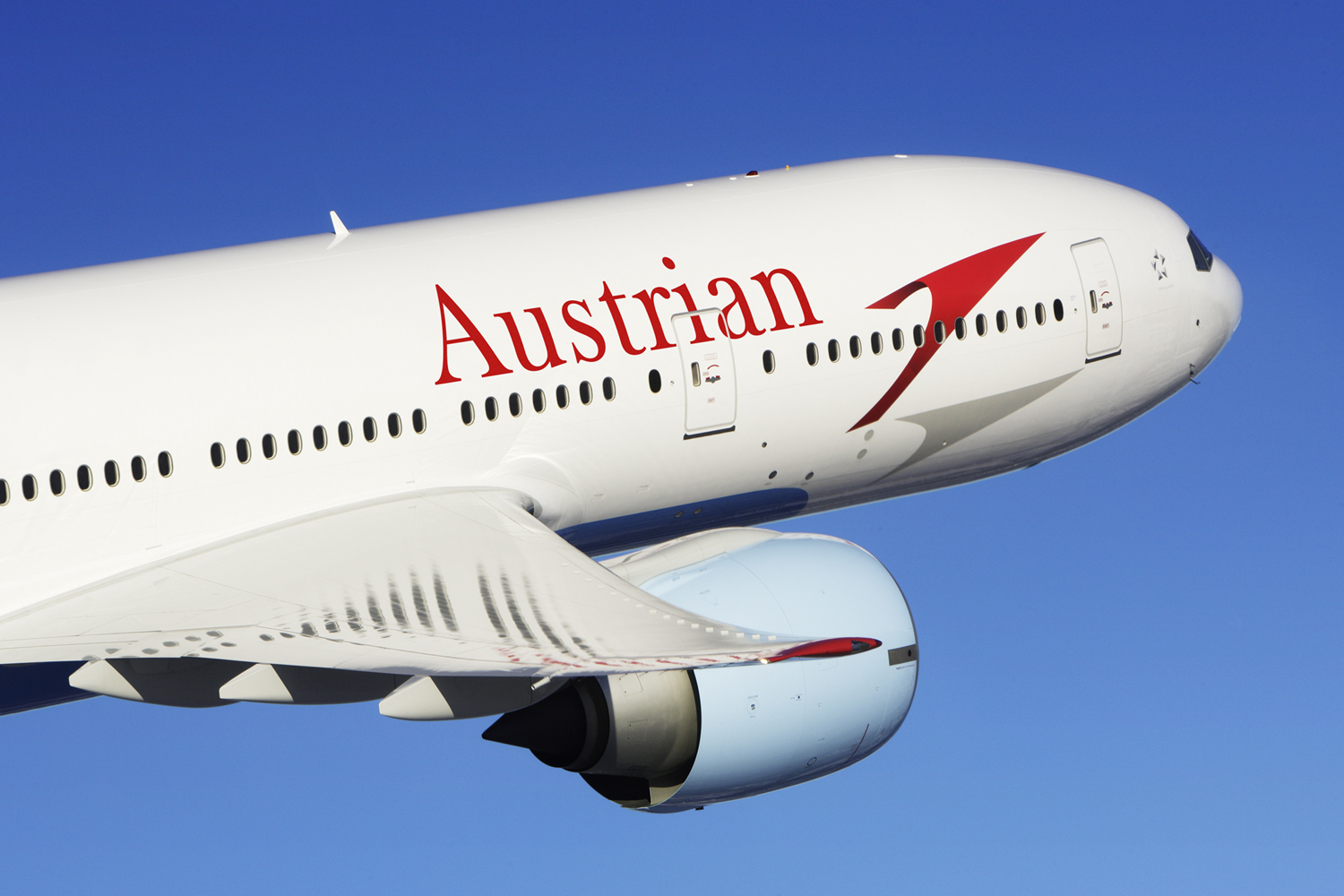 Boeing 777 of Austrian Airlines in flight